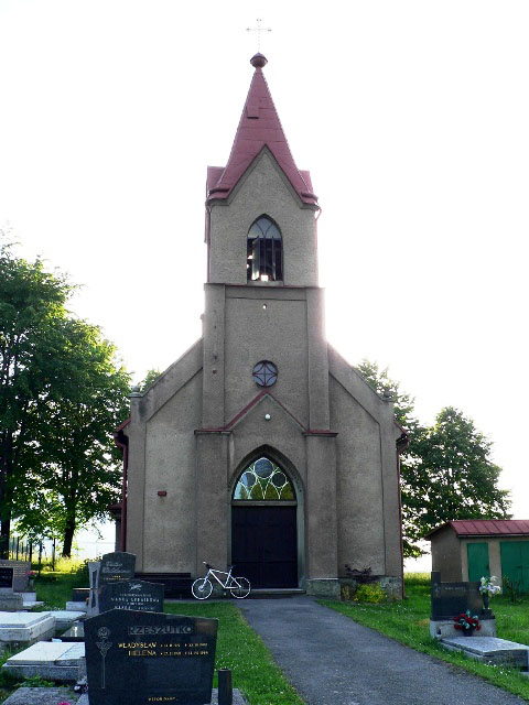 Description: Lutheran church in Guty, Czech Republic. Date: 19 June 2006 Camera: Panasonic DMC-FZ20 Author: Czesil